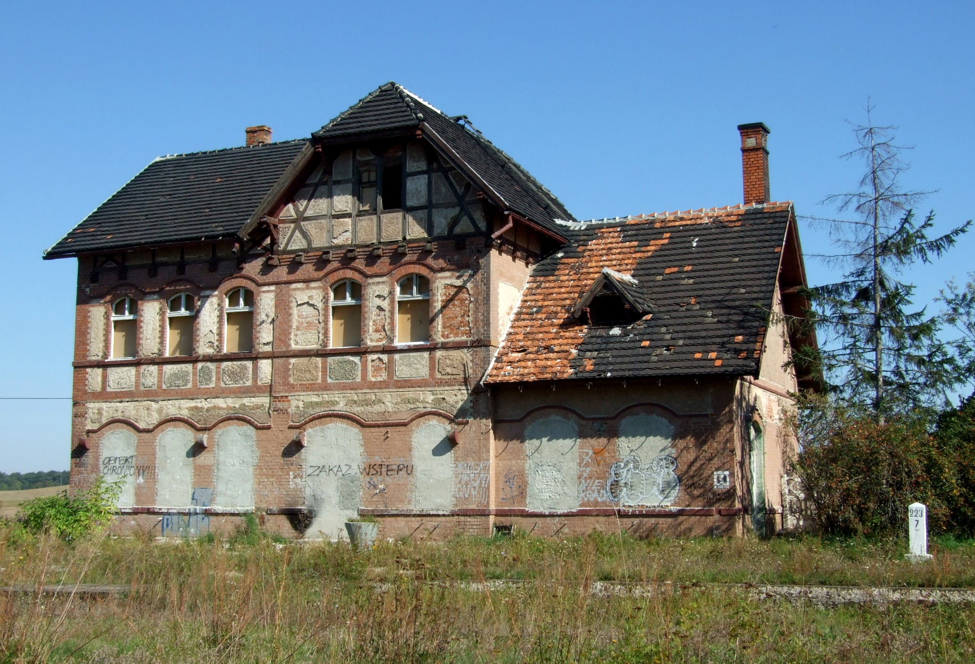 Świdnica Kraszowice train station, Poland